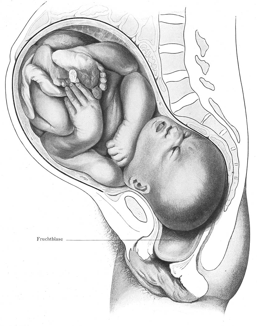 Illustration from Grundriss zum Studium der Geburtshülfe 1902